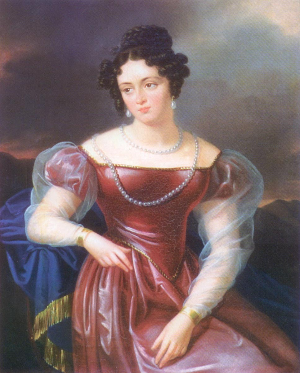 Sofia Kiselyova (Potocki)